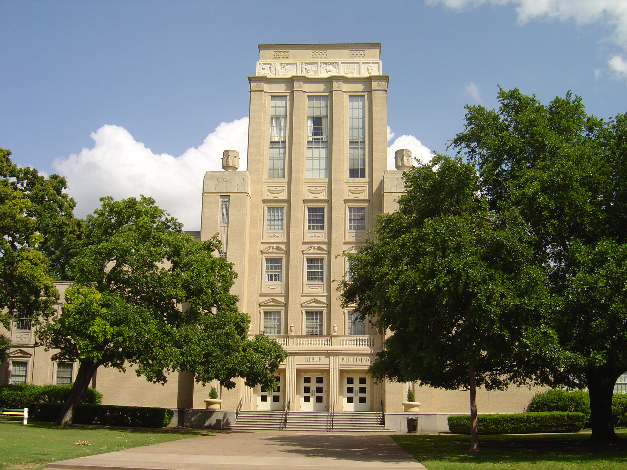 Tidwell Bible Building